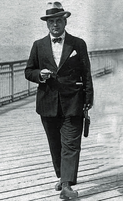 Finnish journalist and conservative member of parliament Yrjö Koskelainen (1885–1976)